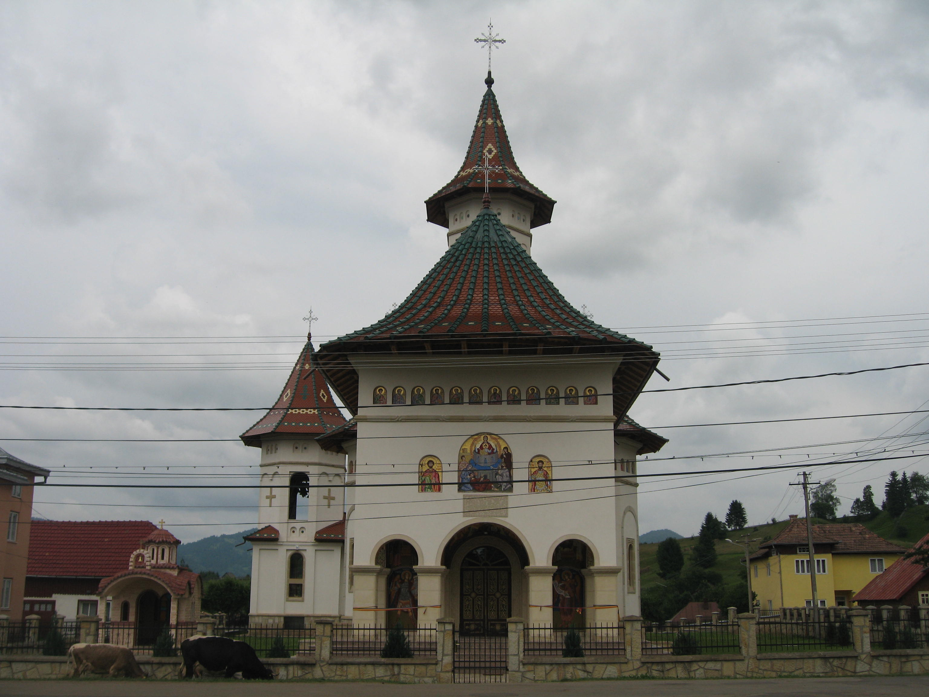 Biserica Izvorul Tămăduirii din Câmpulung Moldovenesc